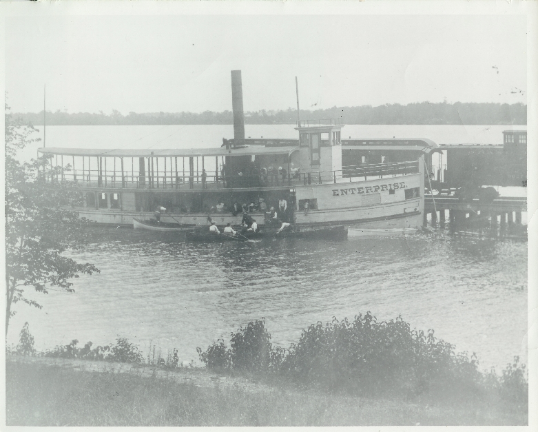 The Toronto and Nipissing Railway (T&N) operated the steamer Enterprise on Lake Simcoe to provide service on the Lake Simcoe Junction Railway (LSJR). Here the Enterprise unloads cargo onto the Grant Trunk cars on the main wharf in Jackson's Point, the northernmost point on the LSJR.